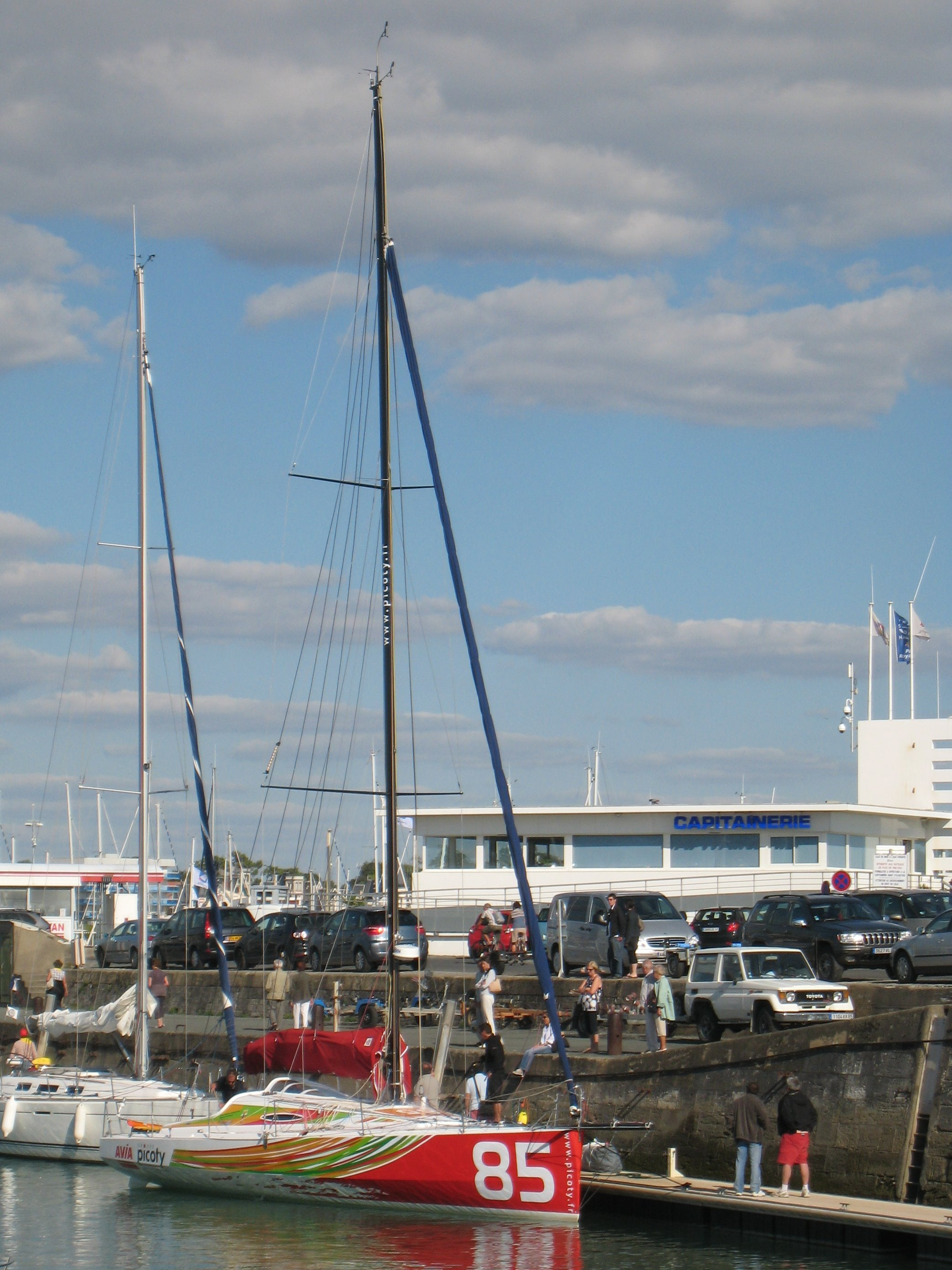 The Class'40 sailing yacht Picoty in the harbour of Royan, France.